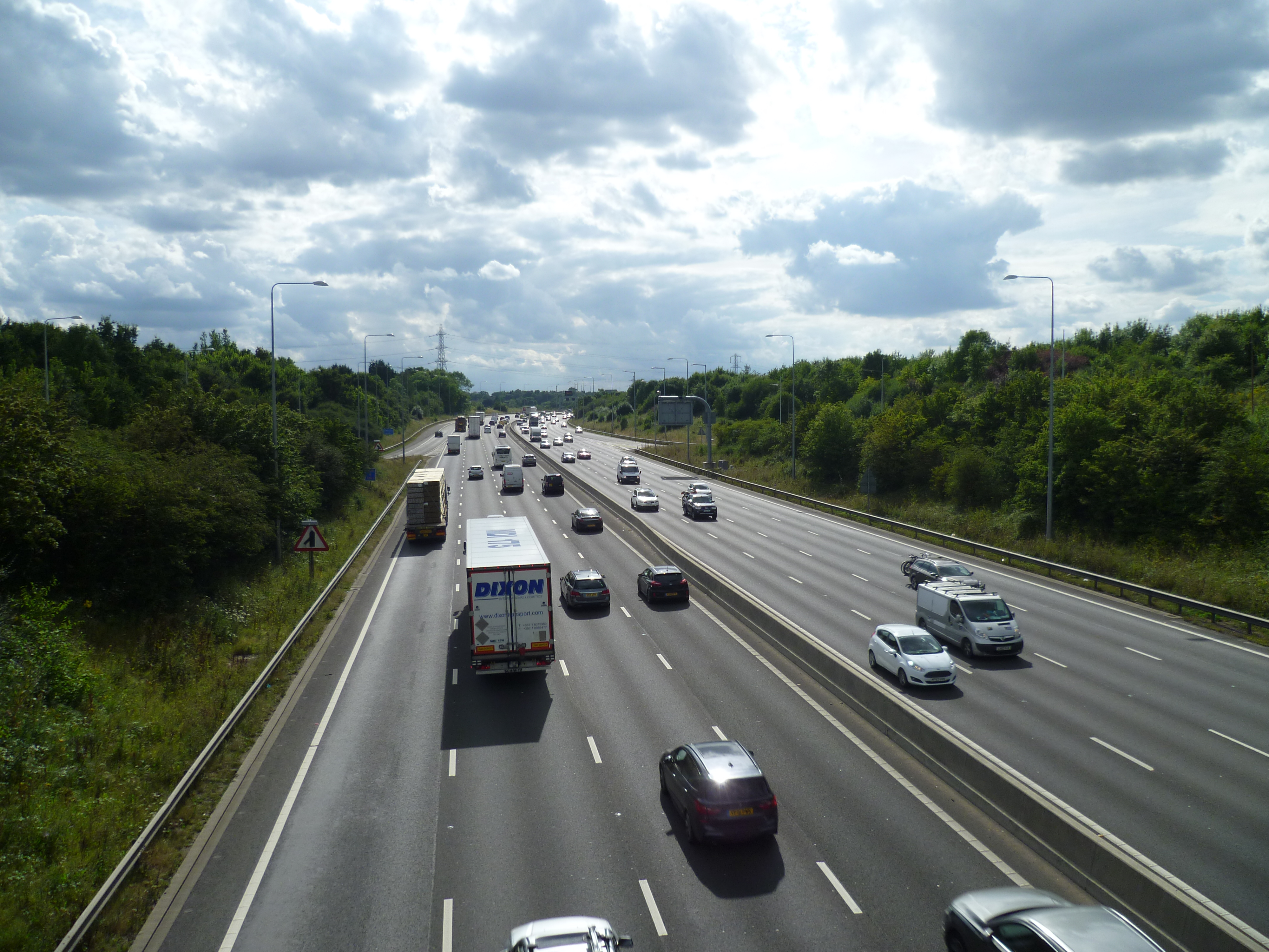 M25 looking west from junction 24 near Potters Bar